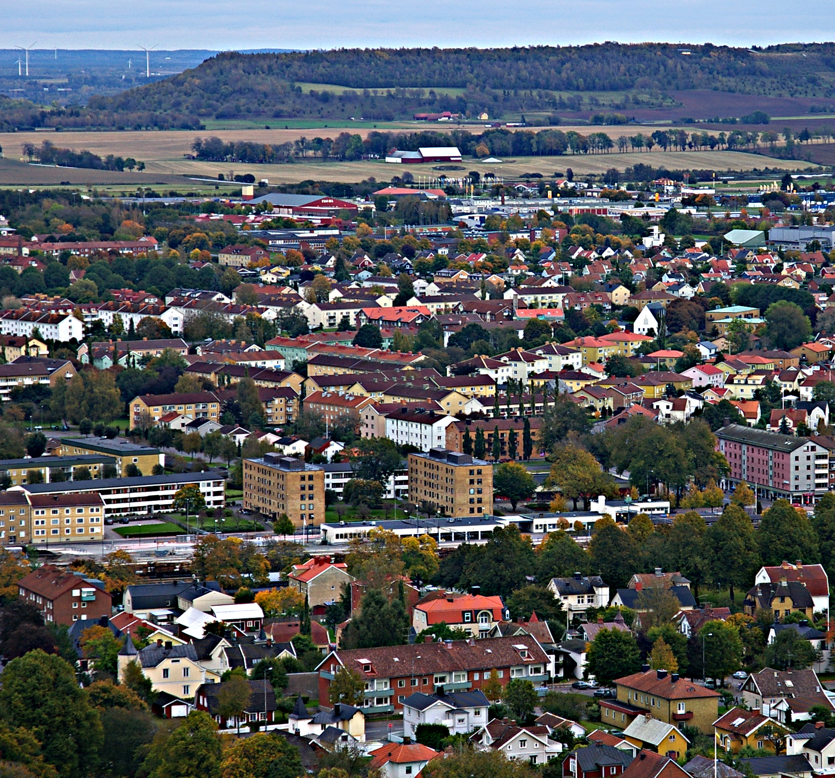 The town Falköping in Västergötland, Sweden. Photographed from Mösseberg viewing tower. In the background the table mountain Ålleberg is seen.